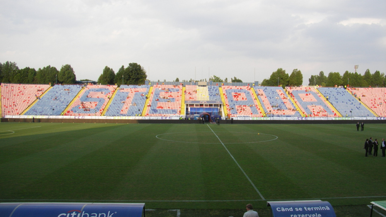 Steaua Bucuresti Stadium at 30 July 2009 .